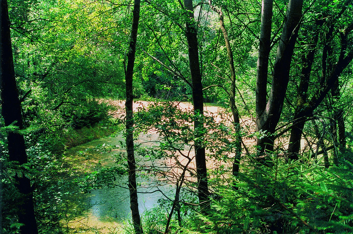 After mining the sites partly become biotopes for endangered amphibians.